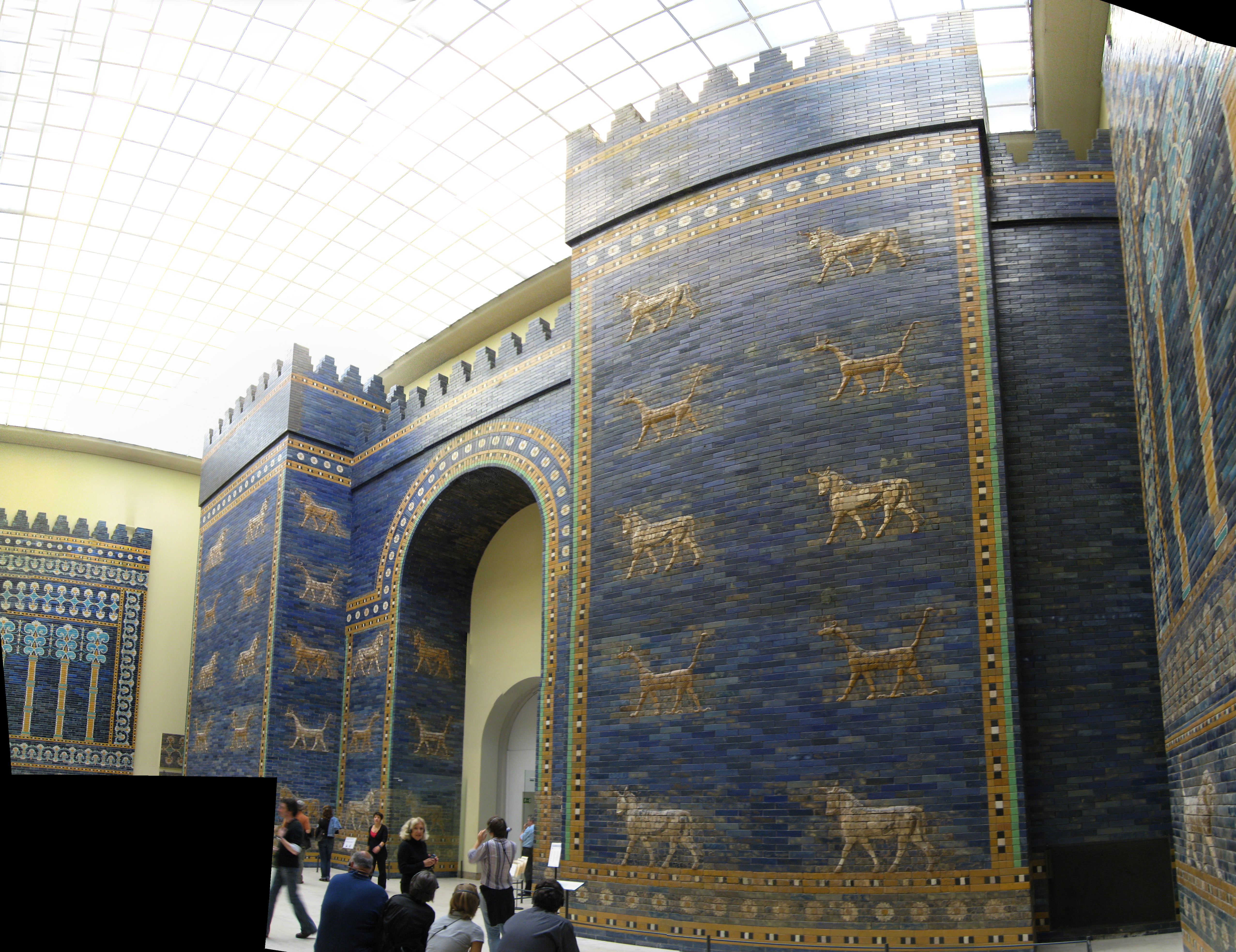 Ishtar Gate in the Pergamonmuseum